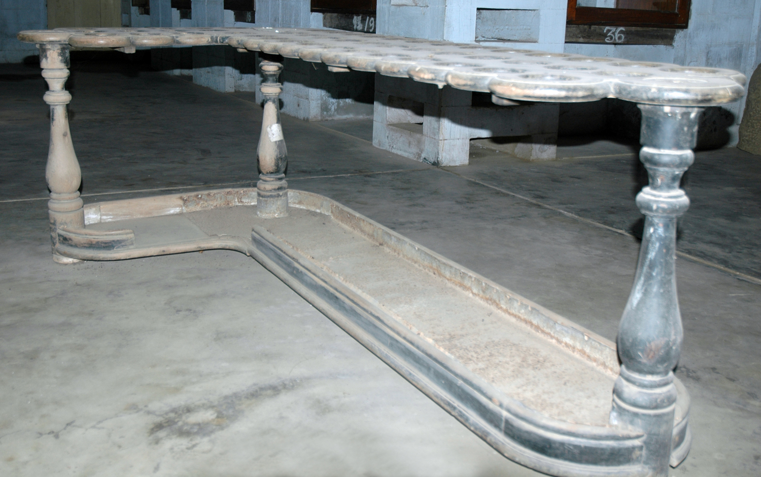 Old umbrella stand in Jaffna Archaeological Museum.